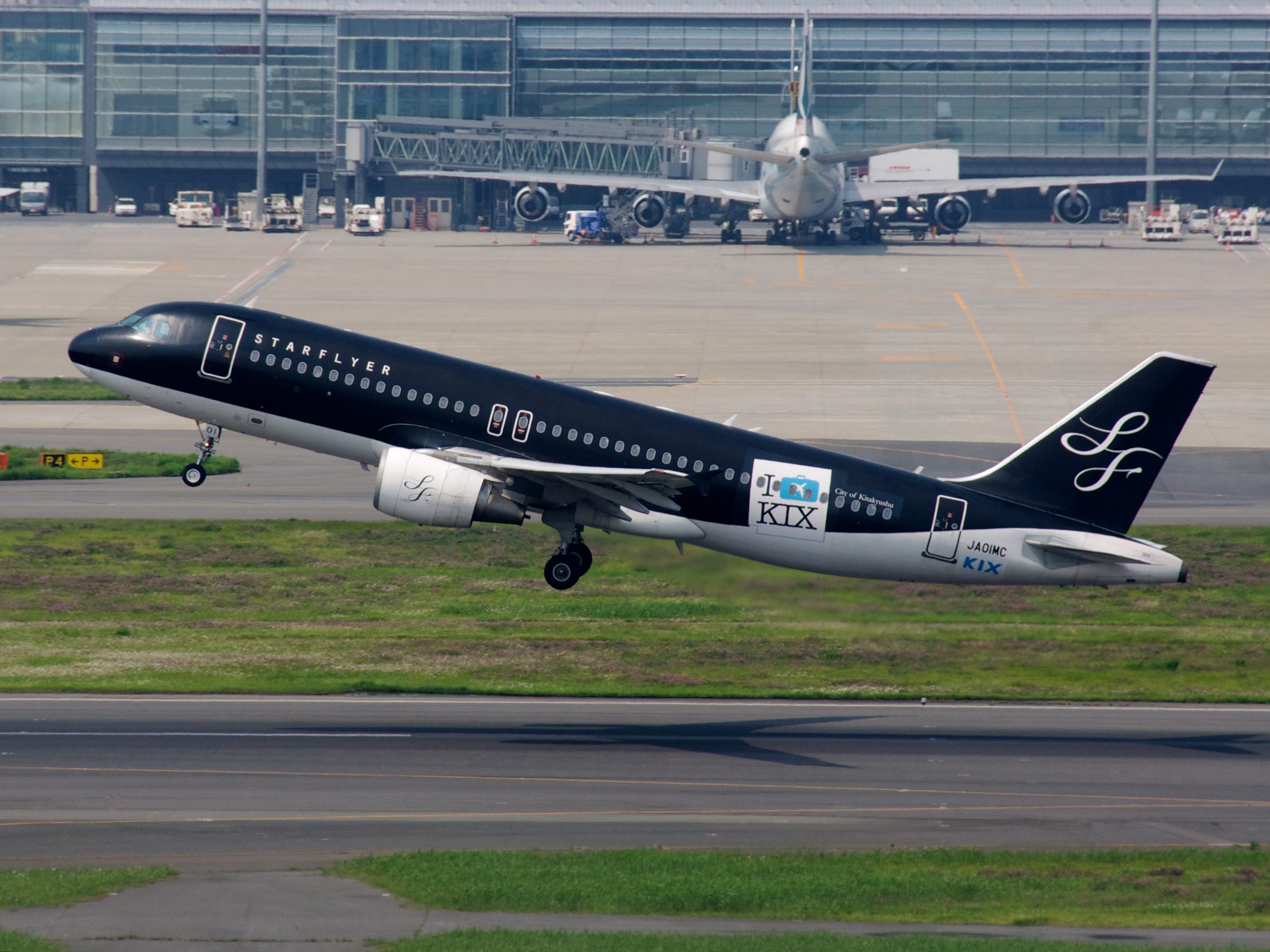 Departing Tokyo International Airport HND